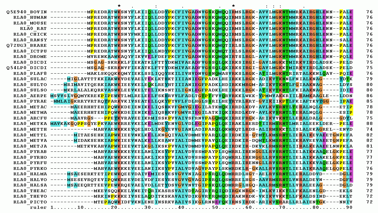 Representation of a protein multiple sequence alignment produced with ClustalW. The sequences are instances of the acidic ribosomal protein P0 homolog (L10E) encoded by the Rplp0 gene from multiple organisms. The protein sequences were obtained from SwissProt searching with the gene name. Generated by Miguel Andrade 17:55, 25 February 2006 (UTC) Only the first 90 positions of the alignment are displayed. The colours represent the amino acid conservation according to the properties and distribution of amino acid frequencies in each column. Note the two completely conserved residues arginine (R) and lysine (K) marked with an asterisk at the top of the alignment.